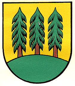 Coat of arms of Category:Krinau, canton of St. Gallen, Switzerland